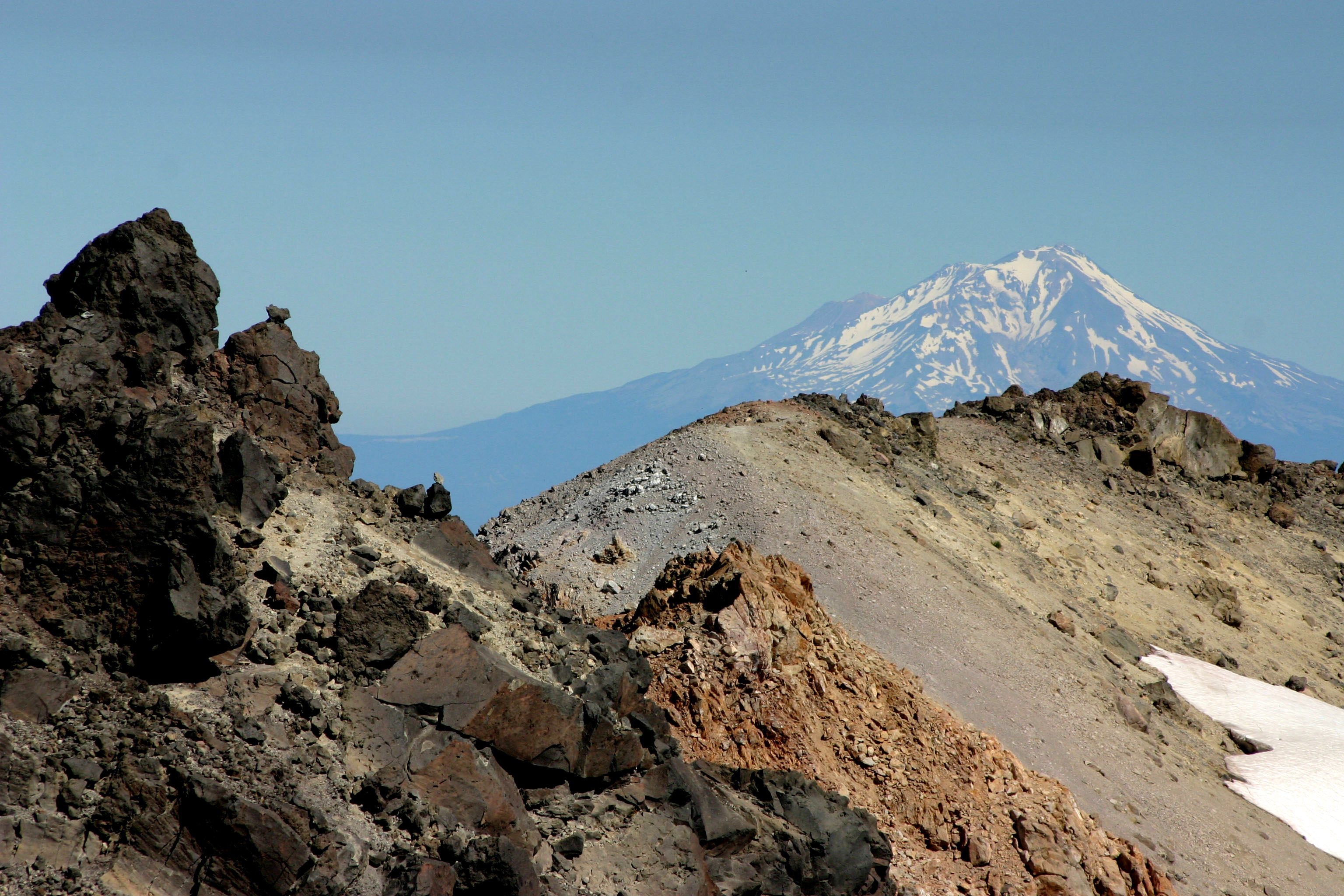 Mount Shasta, towering over the summit of Lassen Peak, even from a distance — in northeastern California.